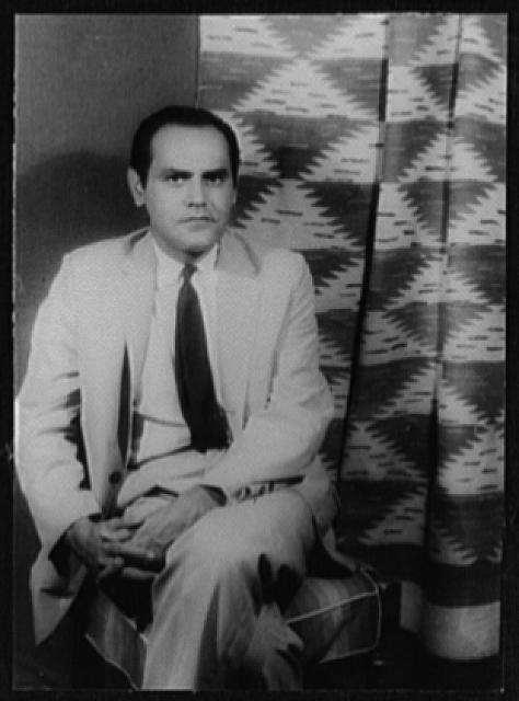 Carl Van Vechten (1880-1964)/LOC van.5a52549. José Quintero, 1958